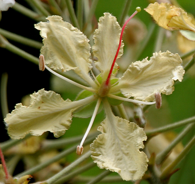 Bauhinia vahlii - Camel's foot climber, Bauhinia climber, Maloo Creeper • Assamese: Nak kati lewa • Bengali: Chehur lata, Shimool • Hindi: मालू Malu, Jallaur, Jallur, Mahul • Kannada: Chambolli • Malayalam: Mottanvalli • Marathi: चम्बुली Chambuli • Nepali: भोर्ला Bhorla • Oriya: Siyali • Sanskrit: Asmantaka, Malanjhana • Tamil: Mandarai, Adda, Kattumandarai • Telugu: Madapu, Adattige at Ananthagiri Hills, in Rangareddy district of Andhra Pradesh, India.